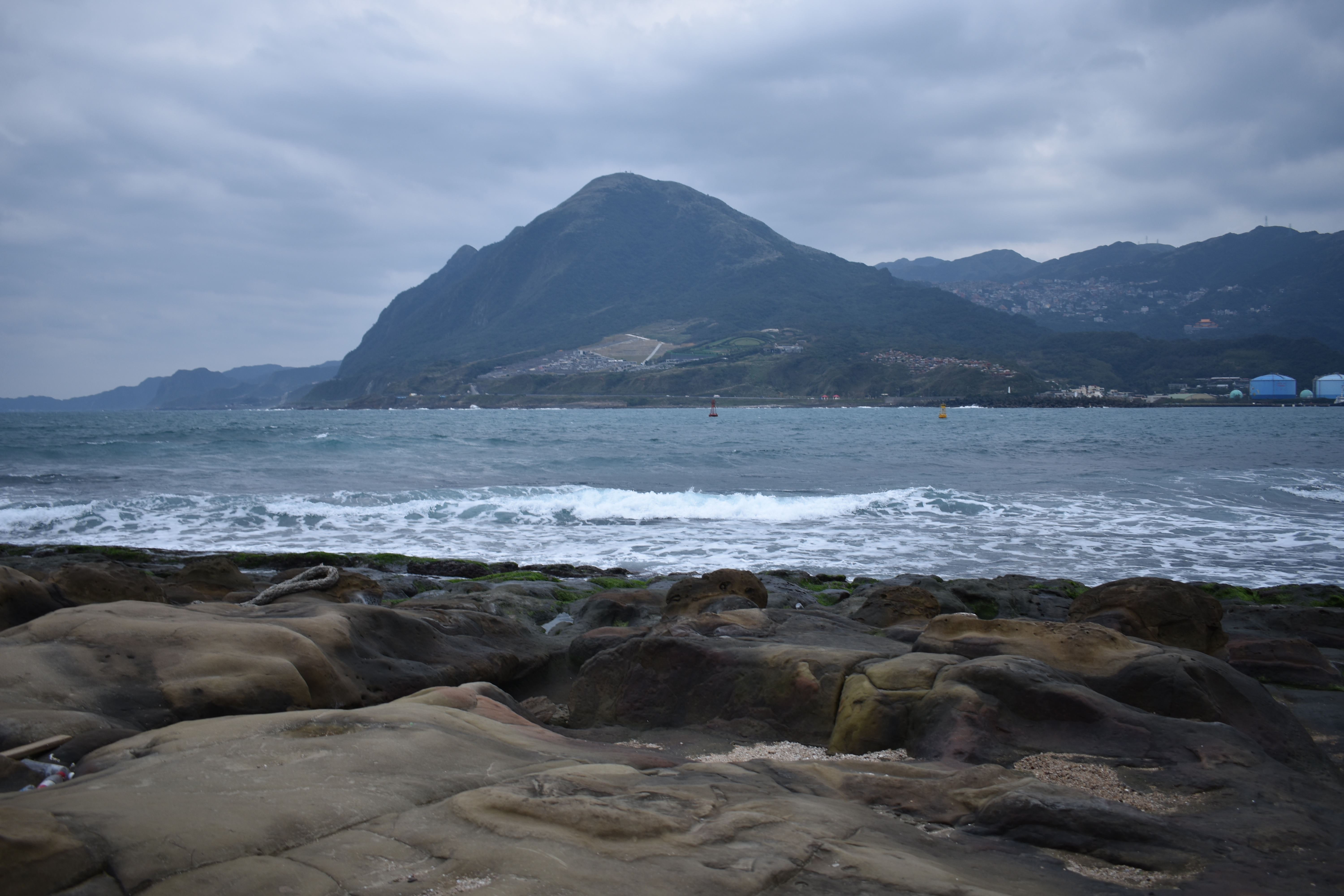 mountain of Keelung, south east of Taipei, Taiwan.